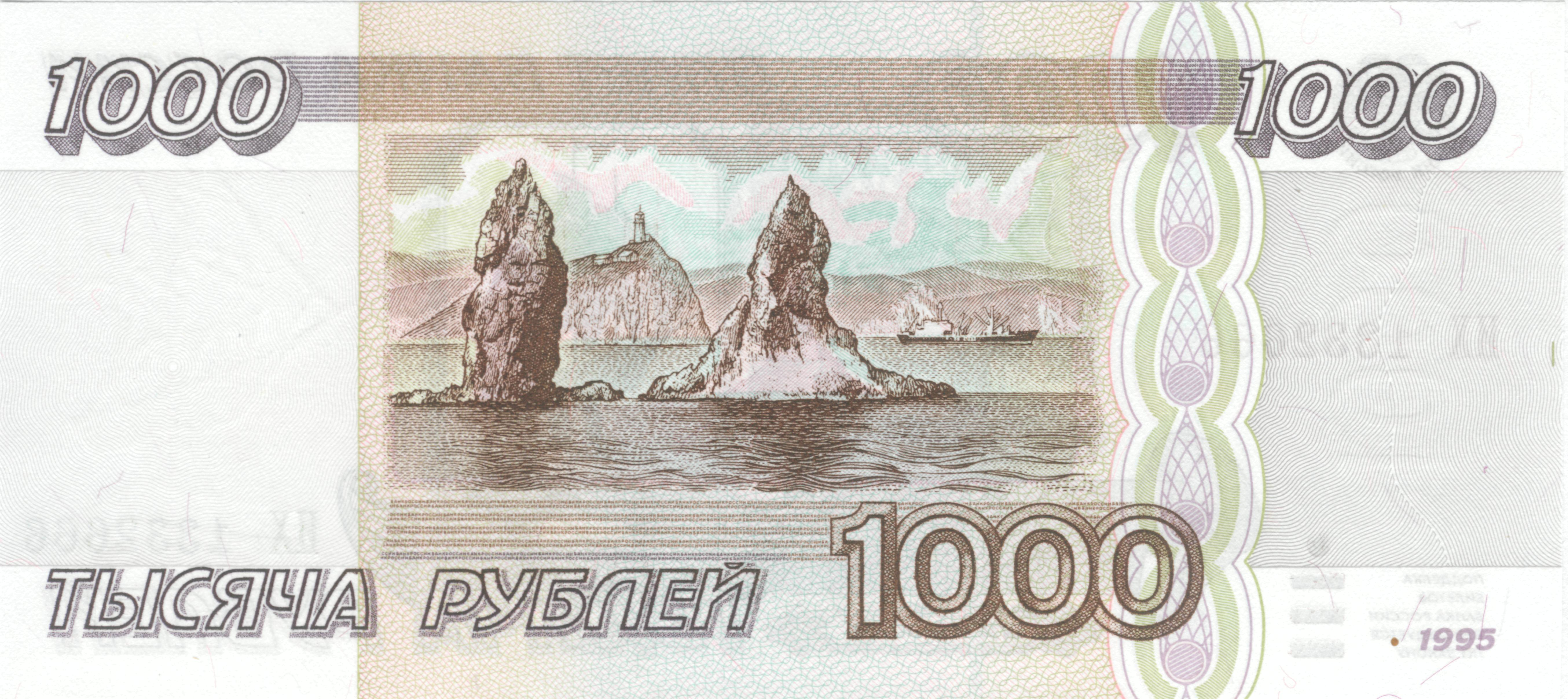 Russian banknote. 1000 rubles. Version of 1995 year. Back